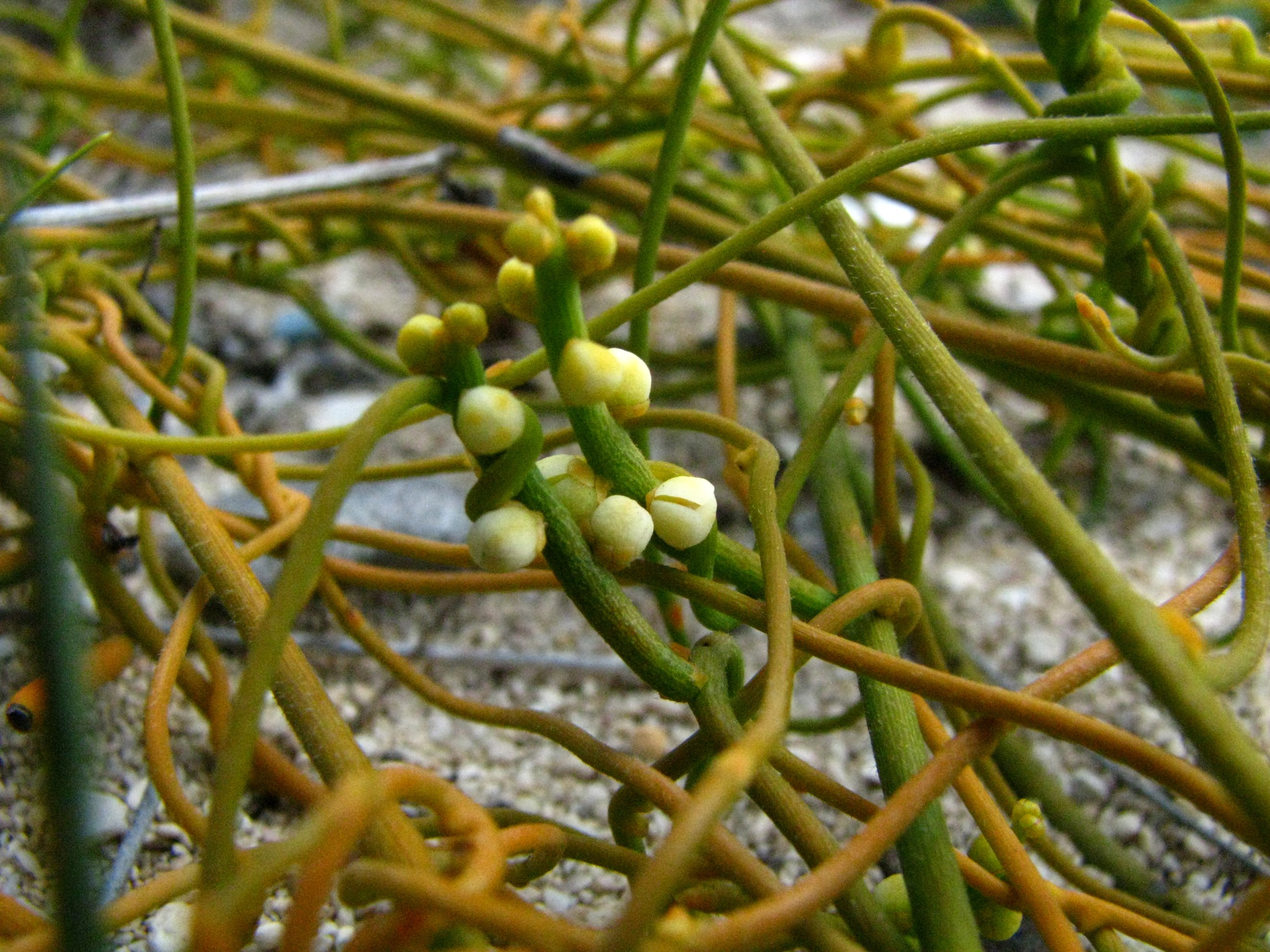 Kaunaʻoa pehu, Love vine or Devil's gut Lauraceae Indigenous to the Hawaiian Islands Barber's Point, Oʻahu Kaunaʻoa pehu was used by early Hawaiians. The plants were pounded until soft, strained, and juice drunk to thin blood for women who have given birth or whose had thick blood.